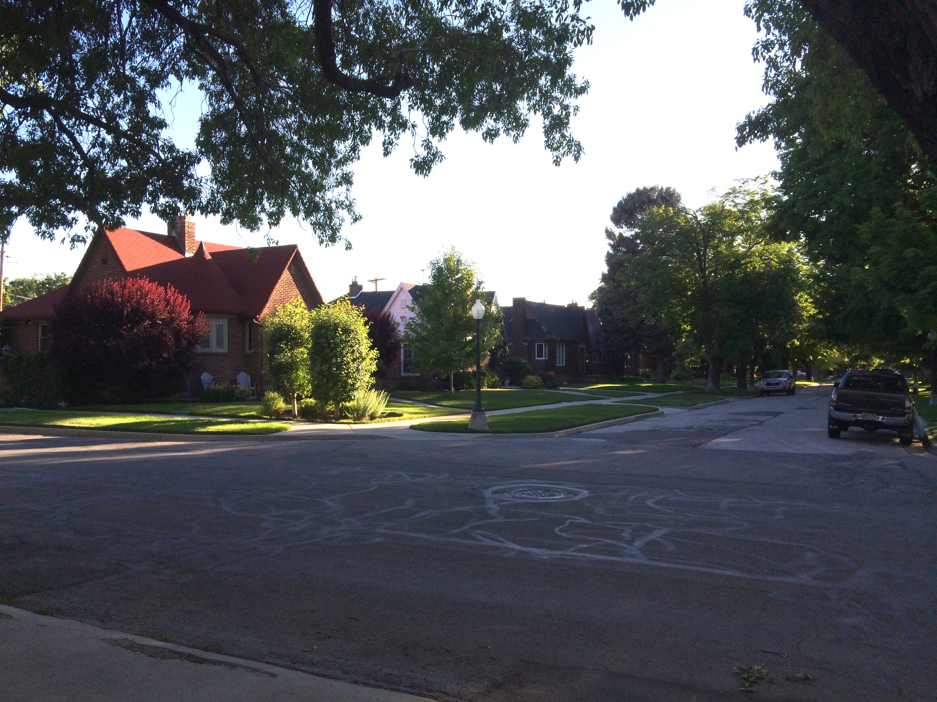 Yalecrest Harvard Streetscape